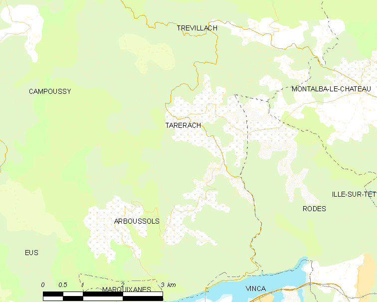 Map of French municipality